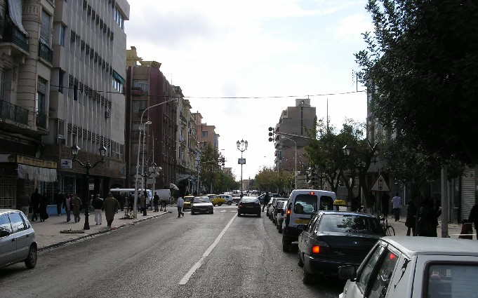 A busy street at Sidi Bel Abbes, Algeria, March 2006.